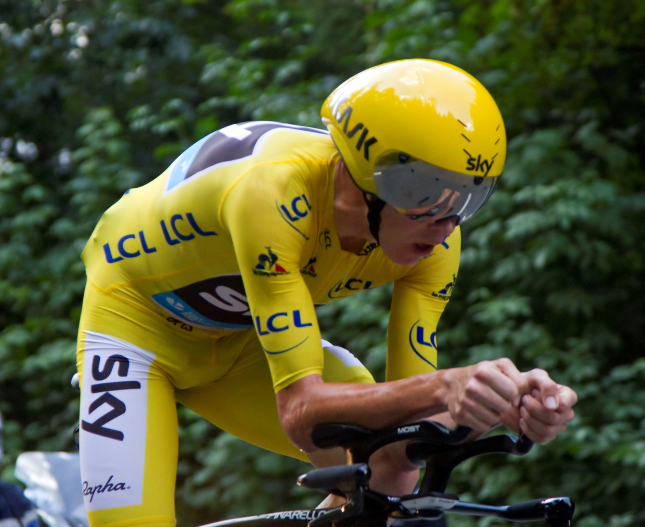 490 froome